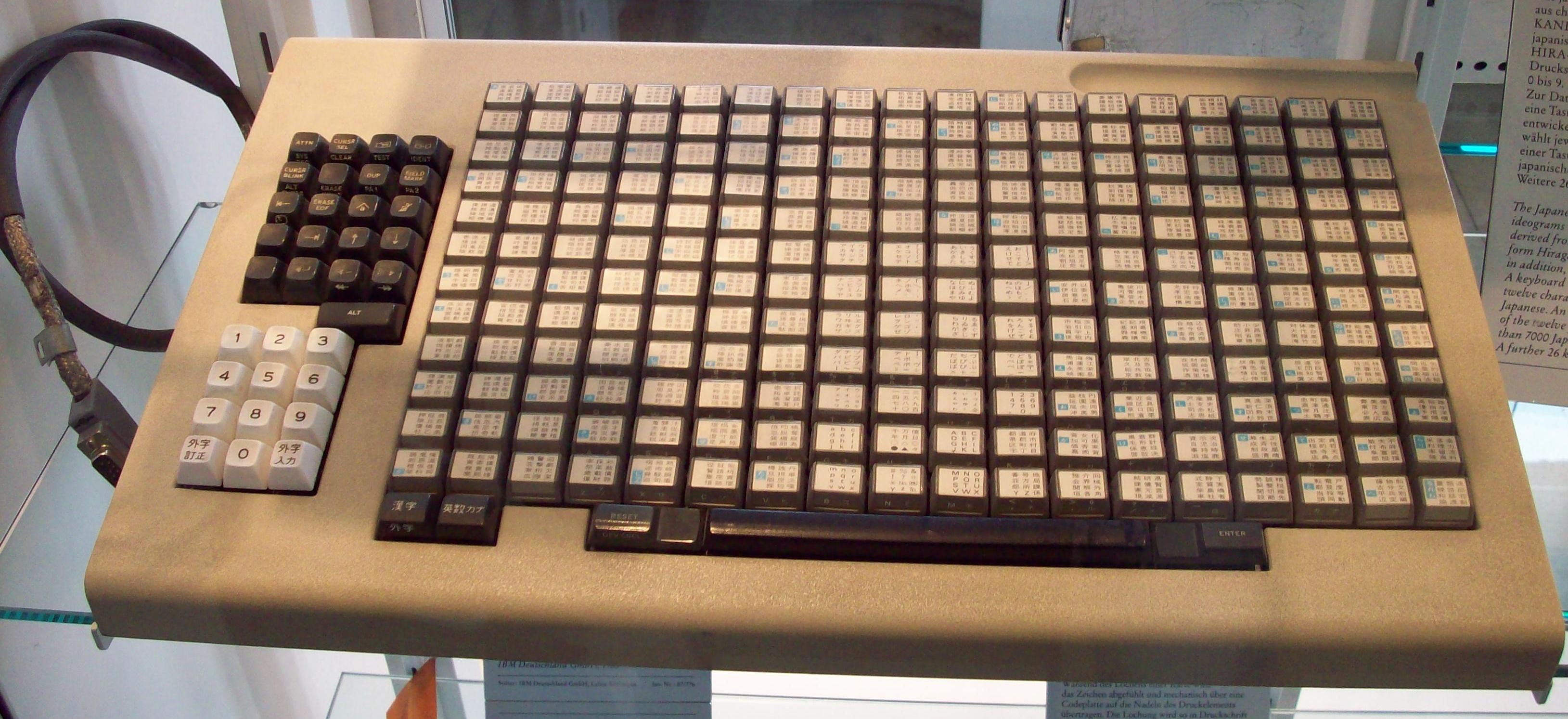 Japanese Keyboard in Deutsches Museum, Munich, Germany